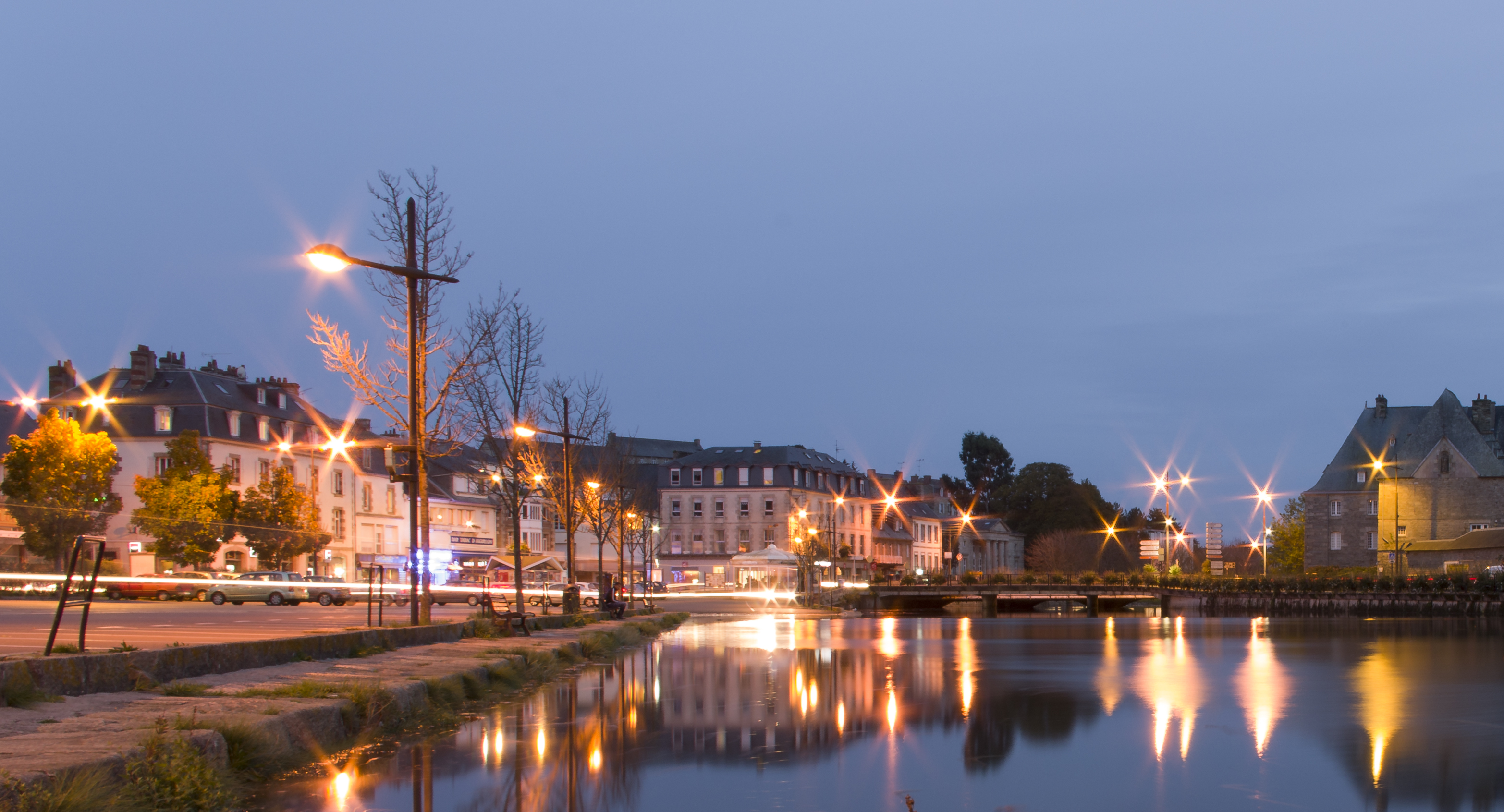 This is an evening picture of Lannion, taken from the edge of the parking space inside the center of the city. I increased the aperture value to get the star-burst effect.